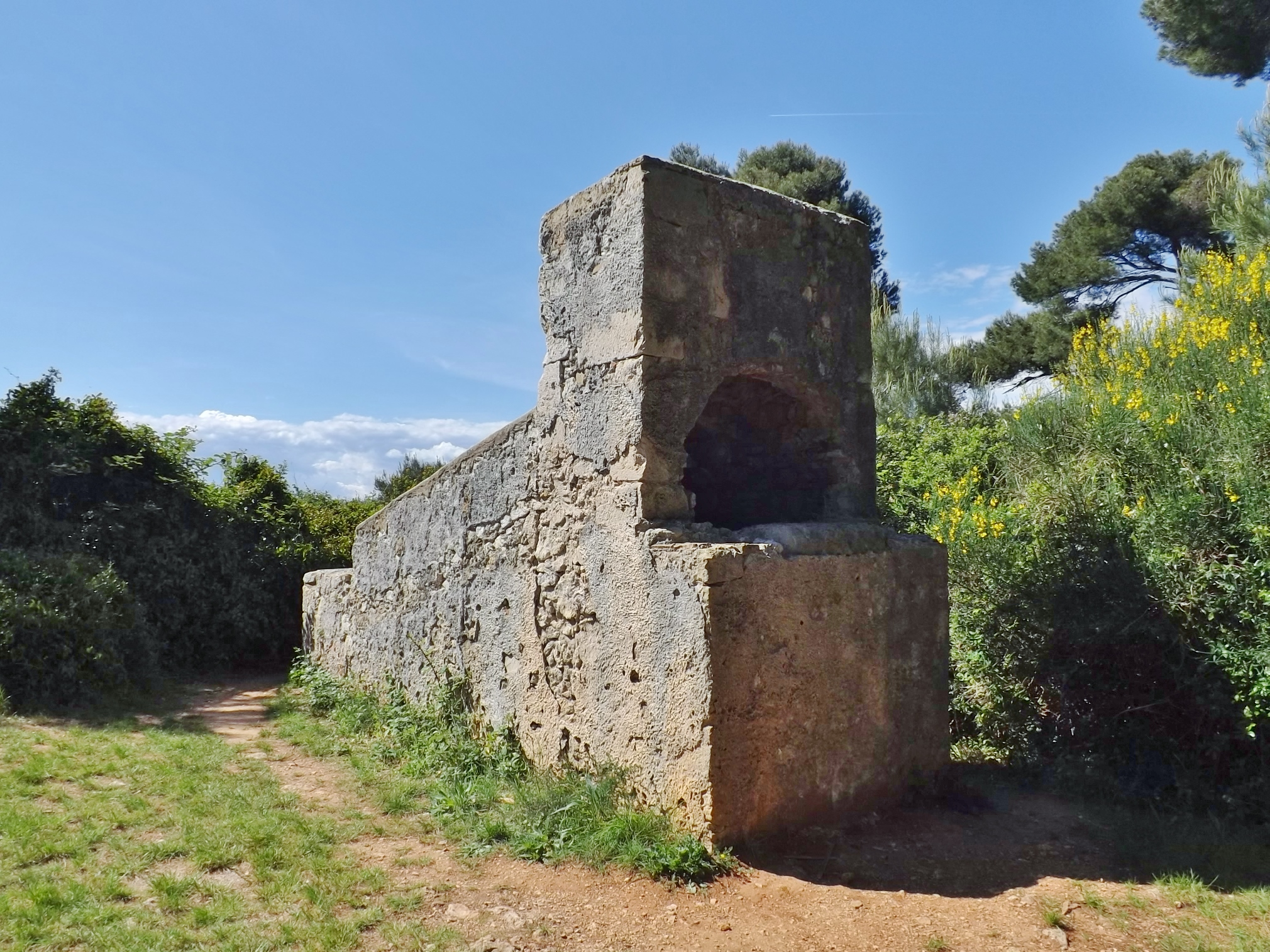 Sight of one of the two furnaces for heating red hot shots, situated on the western side of the île Saint-Honorat island, in the bay of Cannes, Alpes-Maritimes, France.